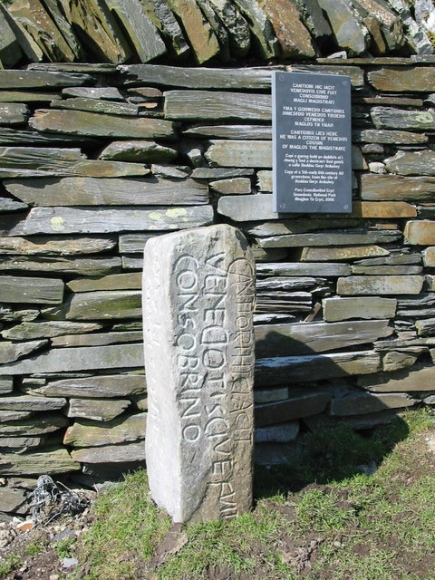 Latin inscription This stone has recently appeared by the Ffestiniog waterworks wall. As the slate inscription explains it is a copy. The original is in Penmachno church.